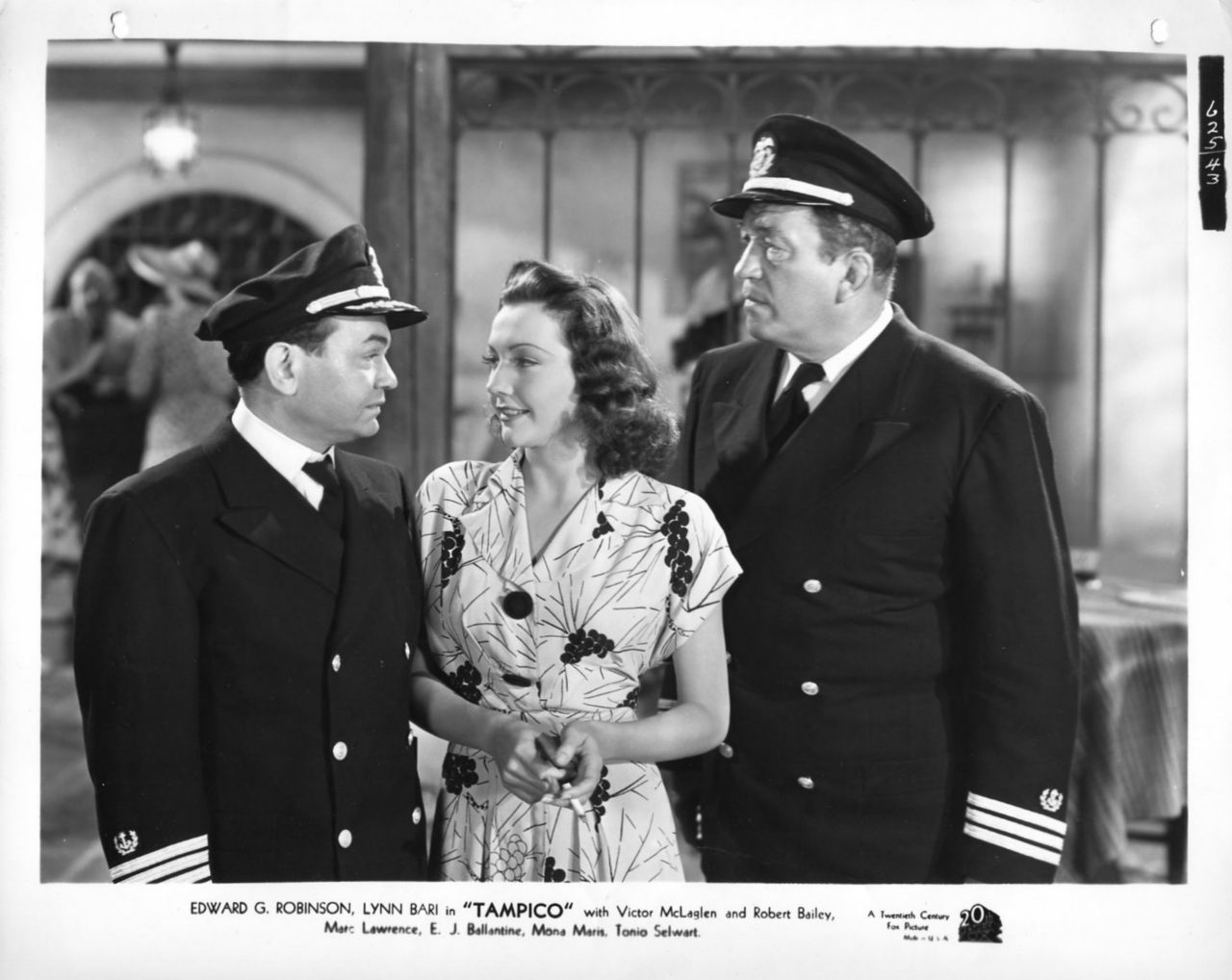 Promotion photo: Edward G. Robinson with Lynn Bari and Victor McLaglen in Tampico (1944).